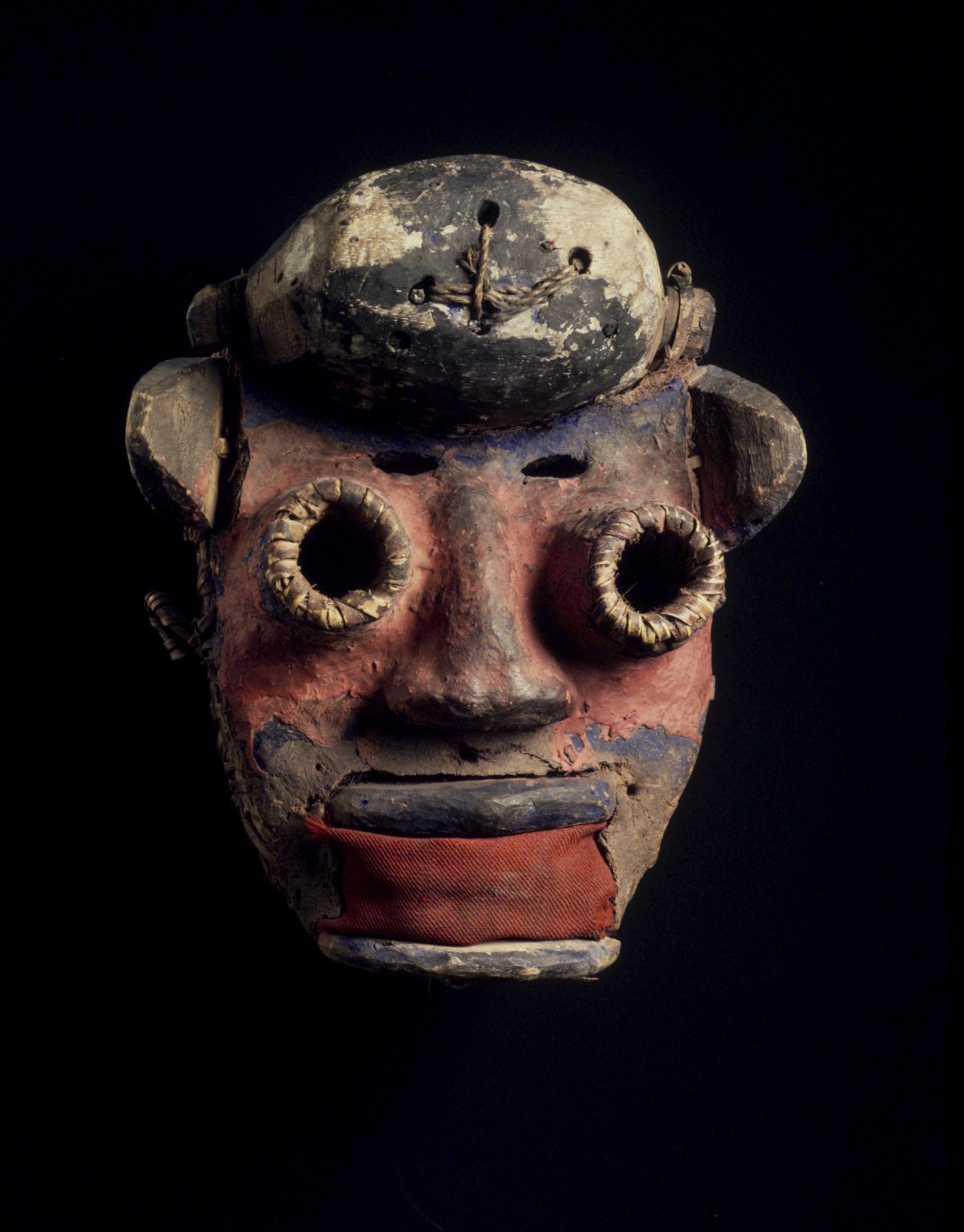 Mask